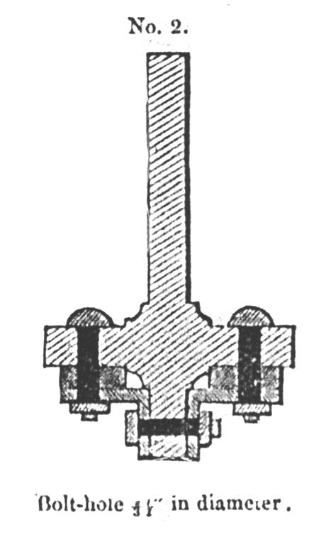 own scan of 1860's engraving